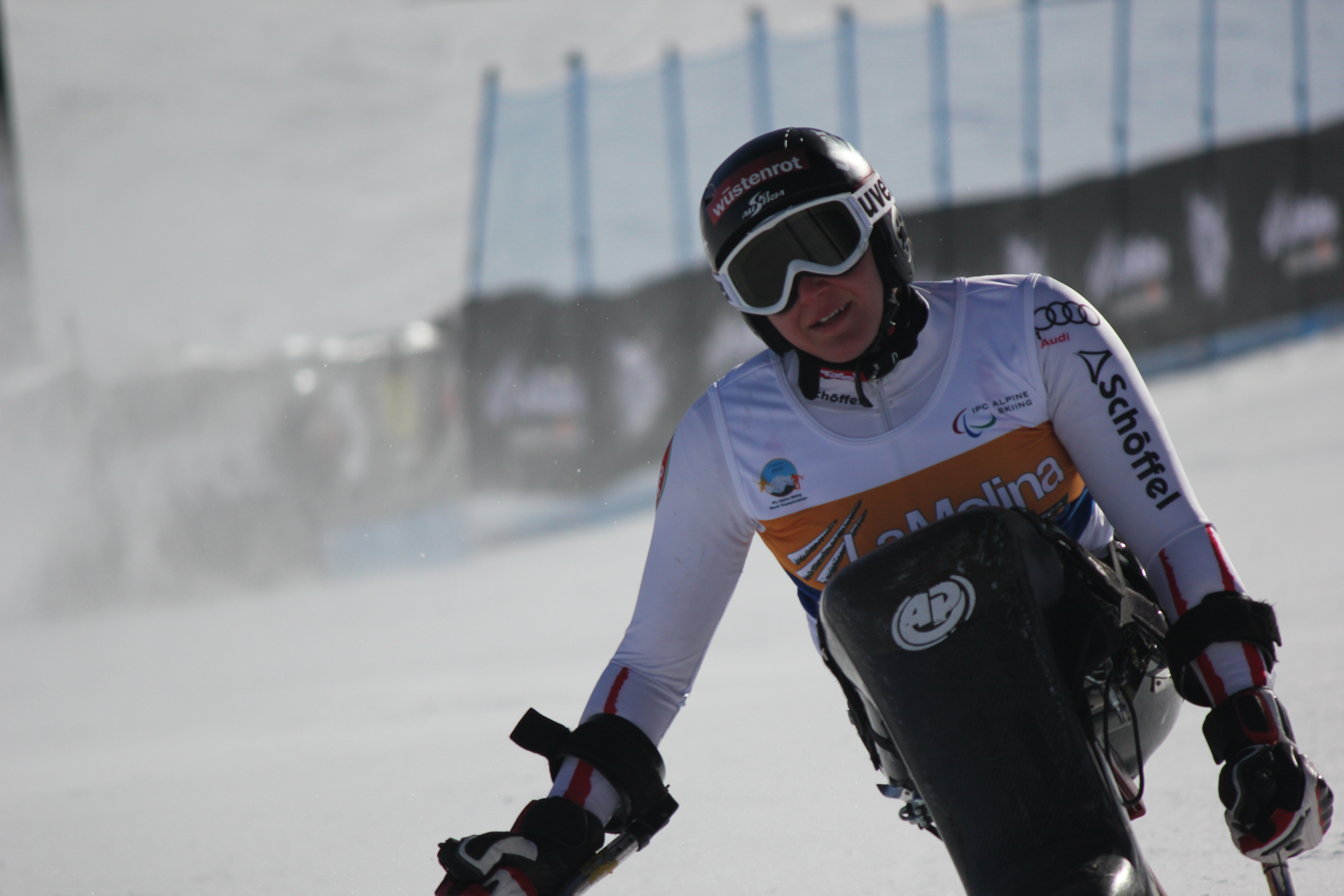 IPC Alpine World Championships in La Molina, Spain. Super-G event on Thursday. Women's sit skier Claudia Loesch of Austria